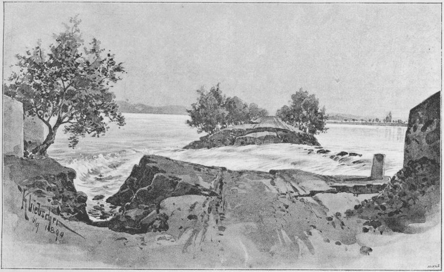 Flood damage on a road between Zbraslav and Malá Chuchle (present-day suburbs of Prague, Czech Republic) in September 1890.